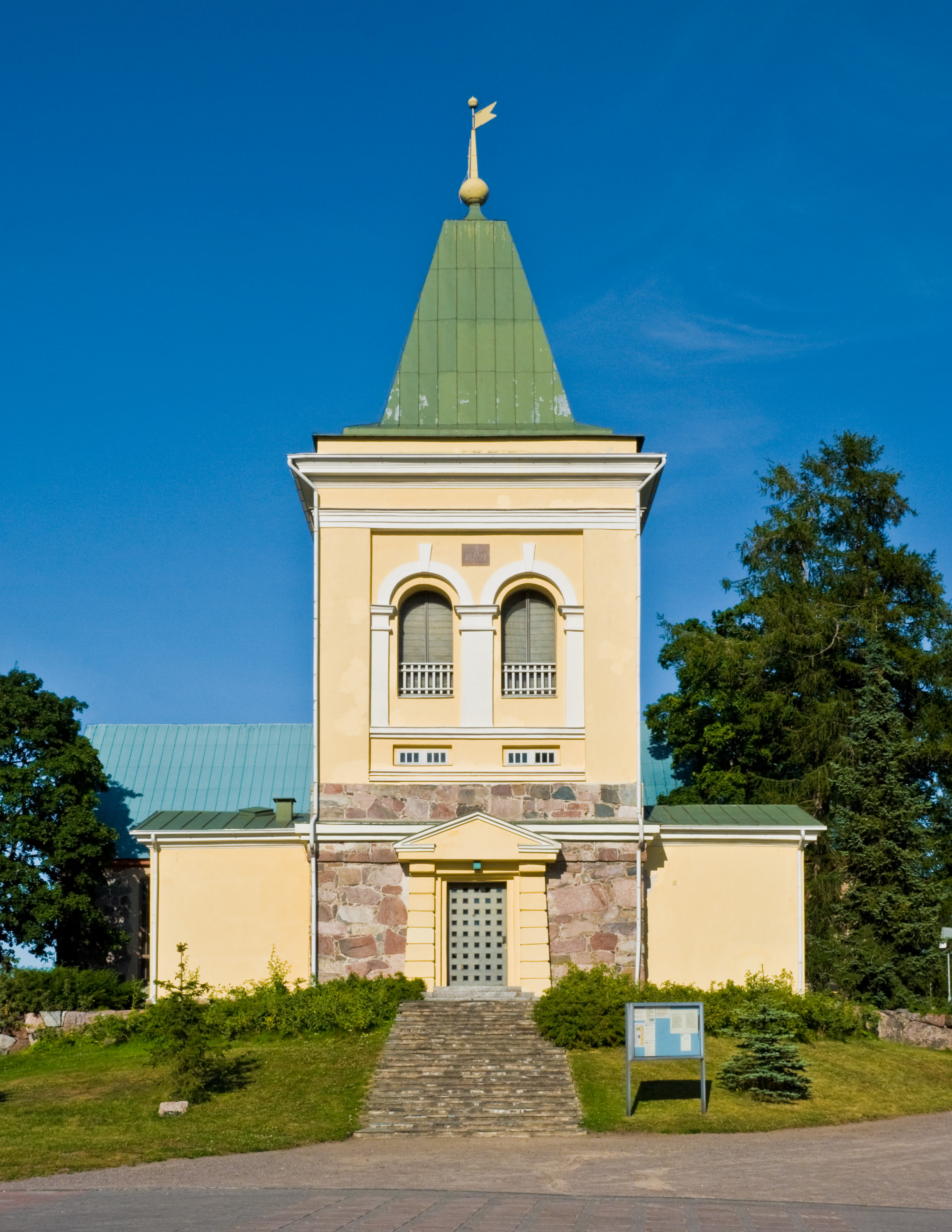 The bell tower of Kirkkonummi church.